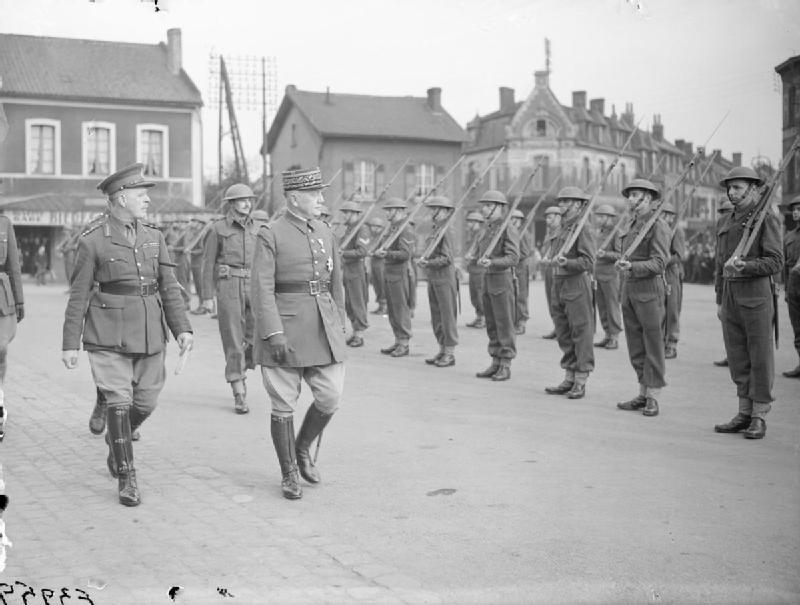 The British Army in France 1940 General Georges of the French Army, accompanied by Lord Gort, inspecting the Royal Inniskilling Fusiliers at Bethune, 23 April 1940.